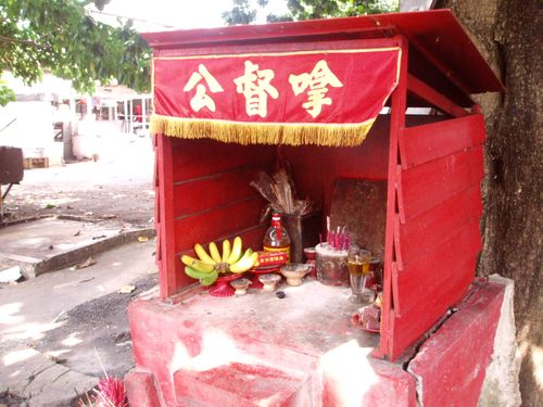 Picture of Na Tuk Kong Shrine NaTukKong003.jpg